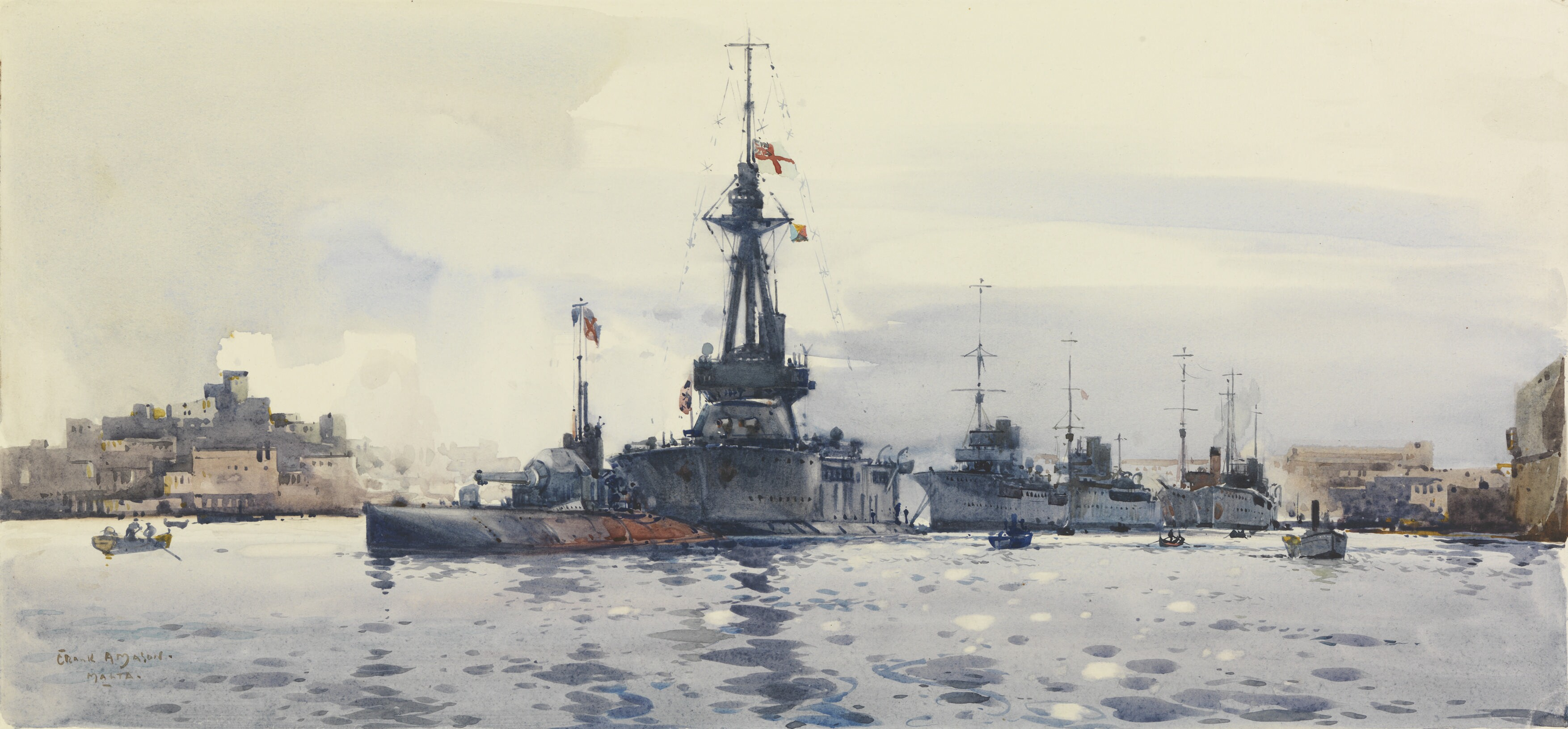 Dockyard Creek, Malta - Submarine M1, Monitor "abercrombie" and Fleet Messengers image: a row of naval ships anchored in a harbour, viewed from the port bow quarter; in the centre, a submarine and a large warship; to the right at some distance three smaller ships. To the left and far right, town buildings onshore.